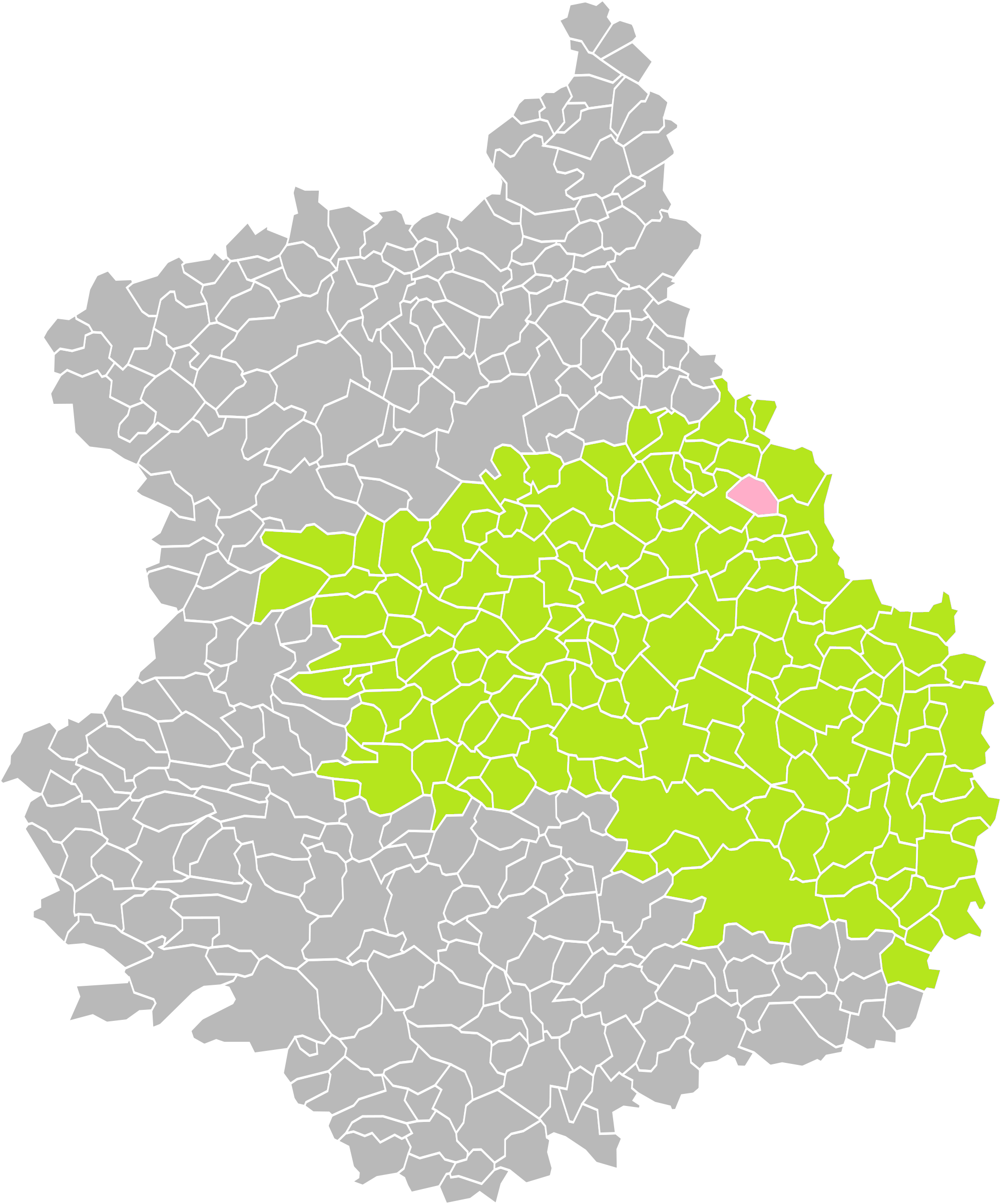 Location of the commune of Gallardon in the arrondissement of Chartres (Eure-et-Loir)